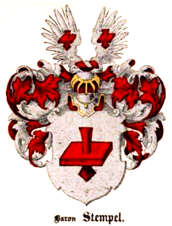 Coat pf arms of Baron_Stempel family